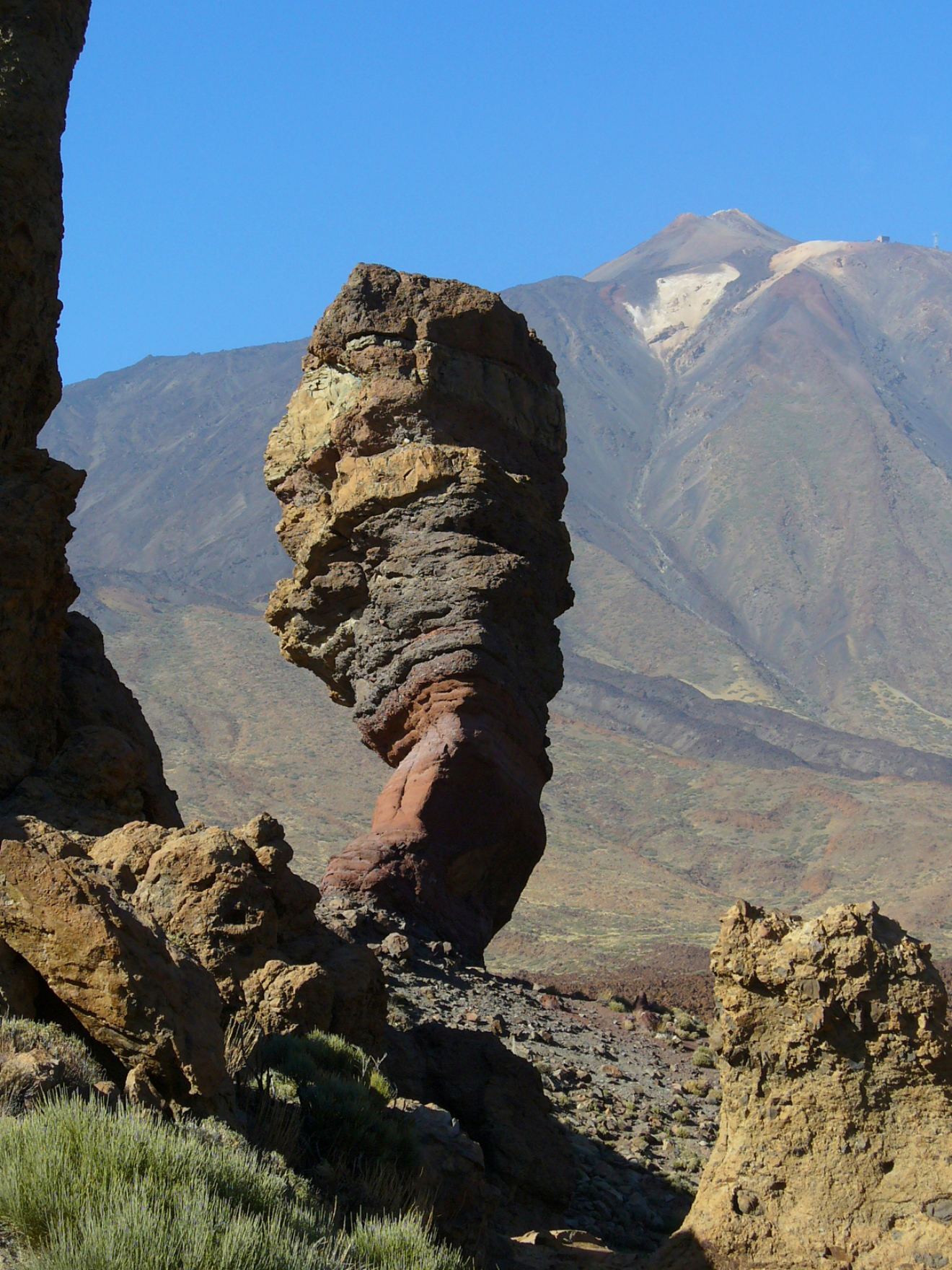 Roque Cinchado with Teide, Tenerife, Spain